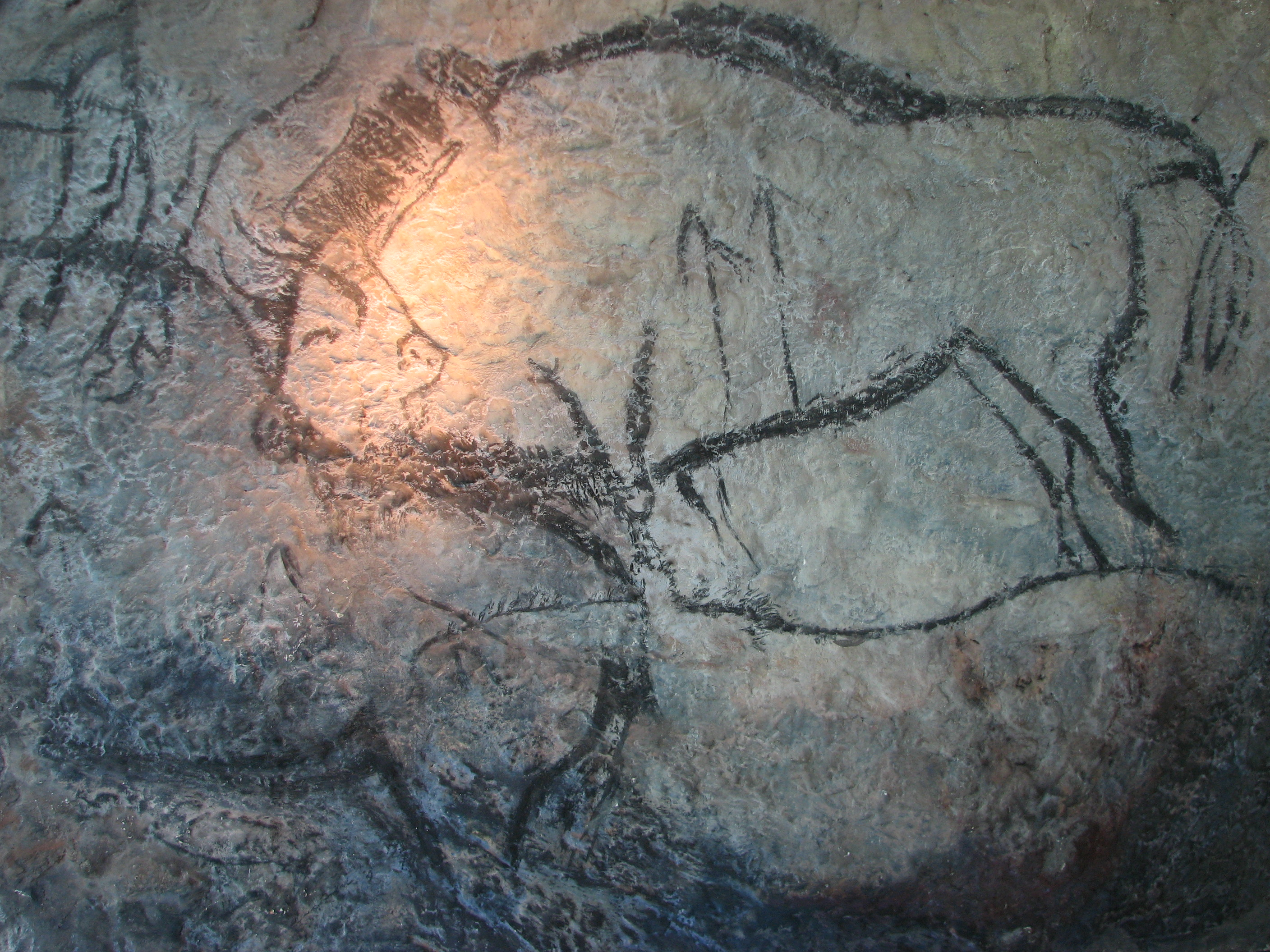 Bisons from the Black Hall (Salon noir) of the Niaux cave, replica in the Brno museum Anthropos. Magdalenian Period of Paleolithic art.